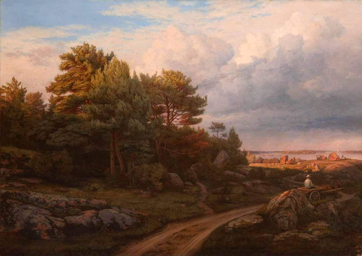 Mikhail Spiridonovich Erassi